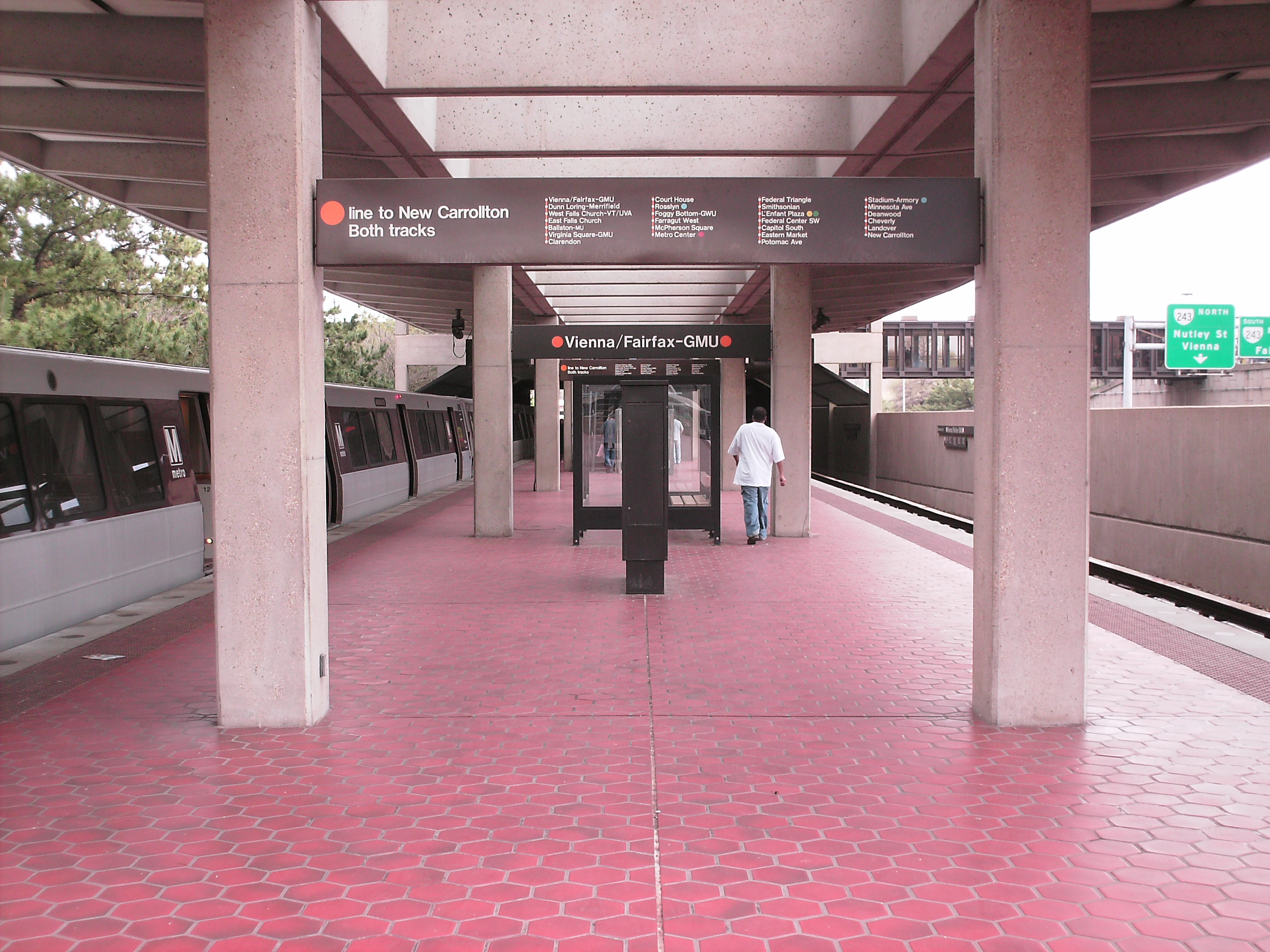 Inbound end of platform at Vienna/Fairfax-GMU station in Fairfax County, Virginia.